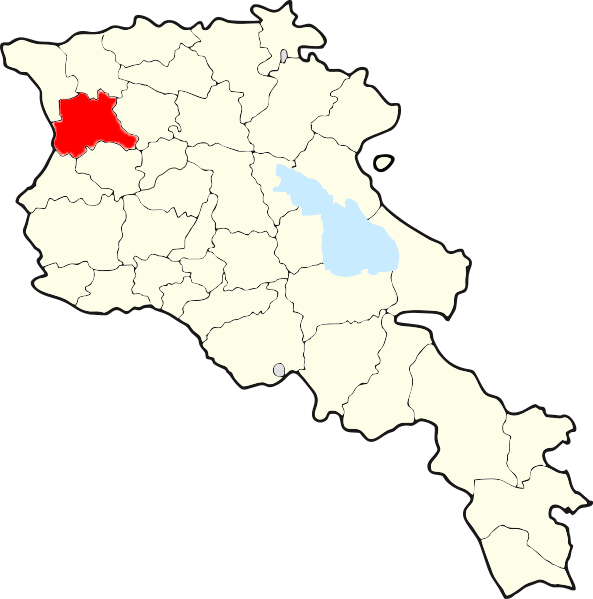 Map of Akhuryan region Arm.SSR